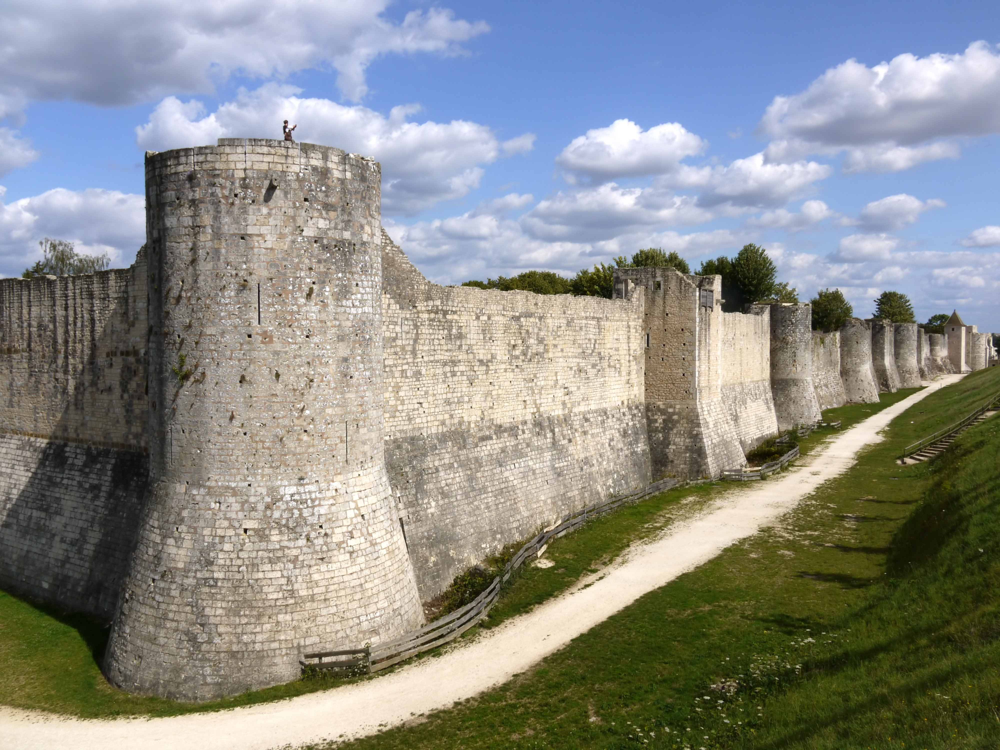 Medieval fortifications of Provins, Ile de France, France. On top of the tower, a falconer and a buzzard parts of a medieval show.